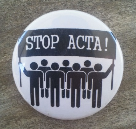 "Stop Acta" Badge